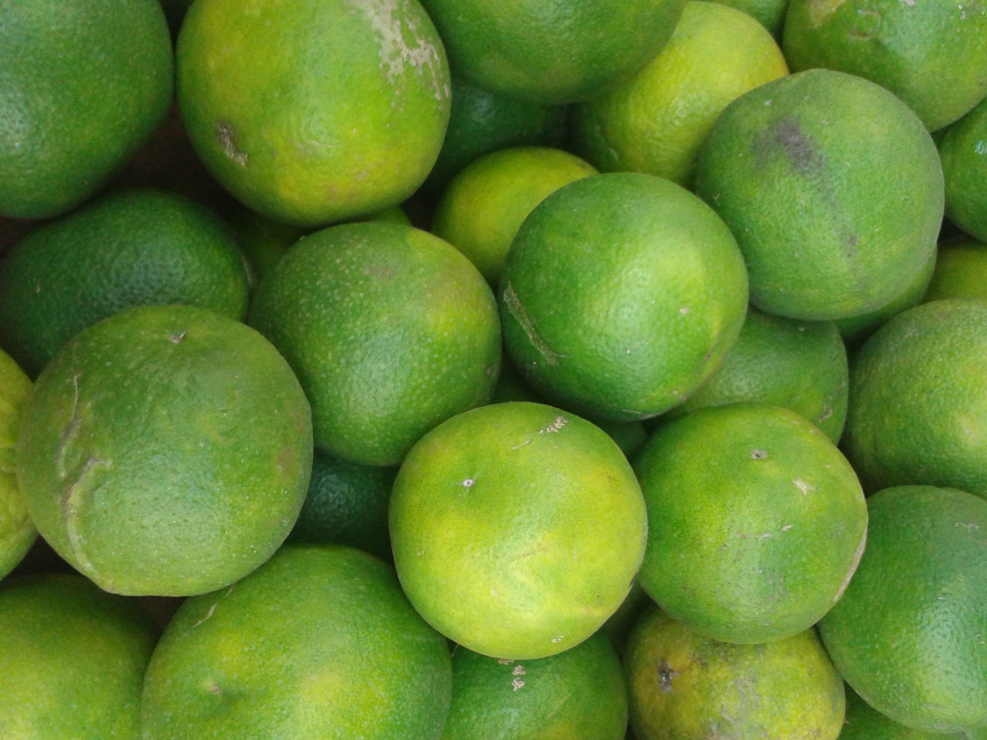 (Citrus limetta) Mosambi at a market in Seethammadhara, Visakhapatnam